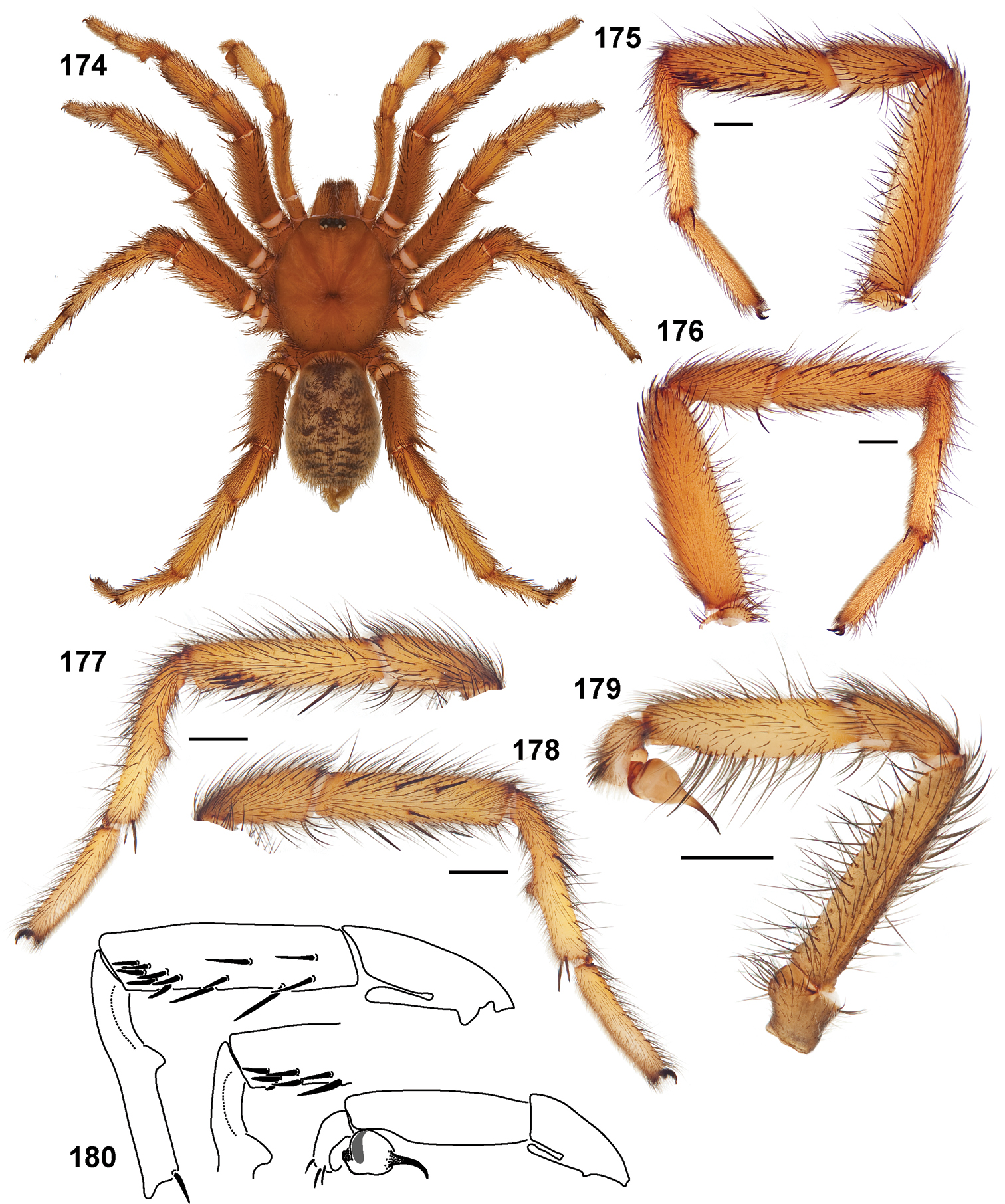 Aptostichus barackobamai sp. n. 174–176 male holotype from Mendocino Co. (AP411) 174 habitus [806630] 175 retrolateral aspect, leg I [806634] 176 prolateral aspect, leg I [806636] 177–179 male paratype from Tehama Co. (MY3805) 177 retrolateral aspect, leg I [806638] 178 prolateral aspect, leg I [806642] 179 retrolateral aspect, pedipalp [806644] 180 line drawings of leg I holotype and paratype specimens; retrolateral aspect of holotype pedipalp. Scale bars = 1.0mm.